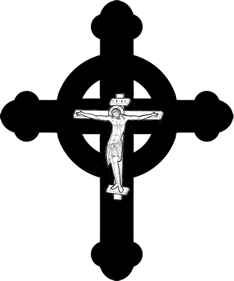 Serbian orthodox cross